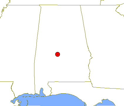 Location map of Selma, Alabama